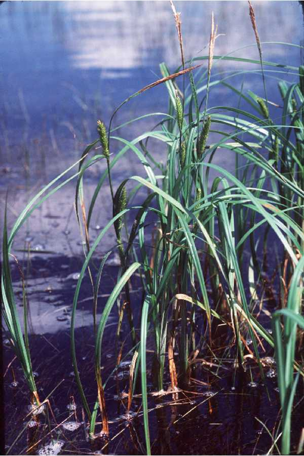 Carex atherodes from Gary Larson, USDA SCS. 1989. Midwest wetland flora: Field office illustrated guide to plant species. Midwest National Technical Center, Lincoln. Courtesy of USDA NRCS Wetland Science Institute.